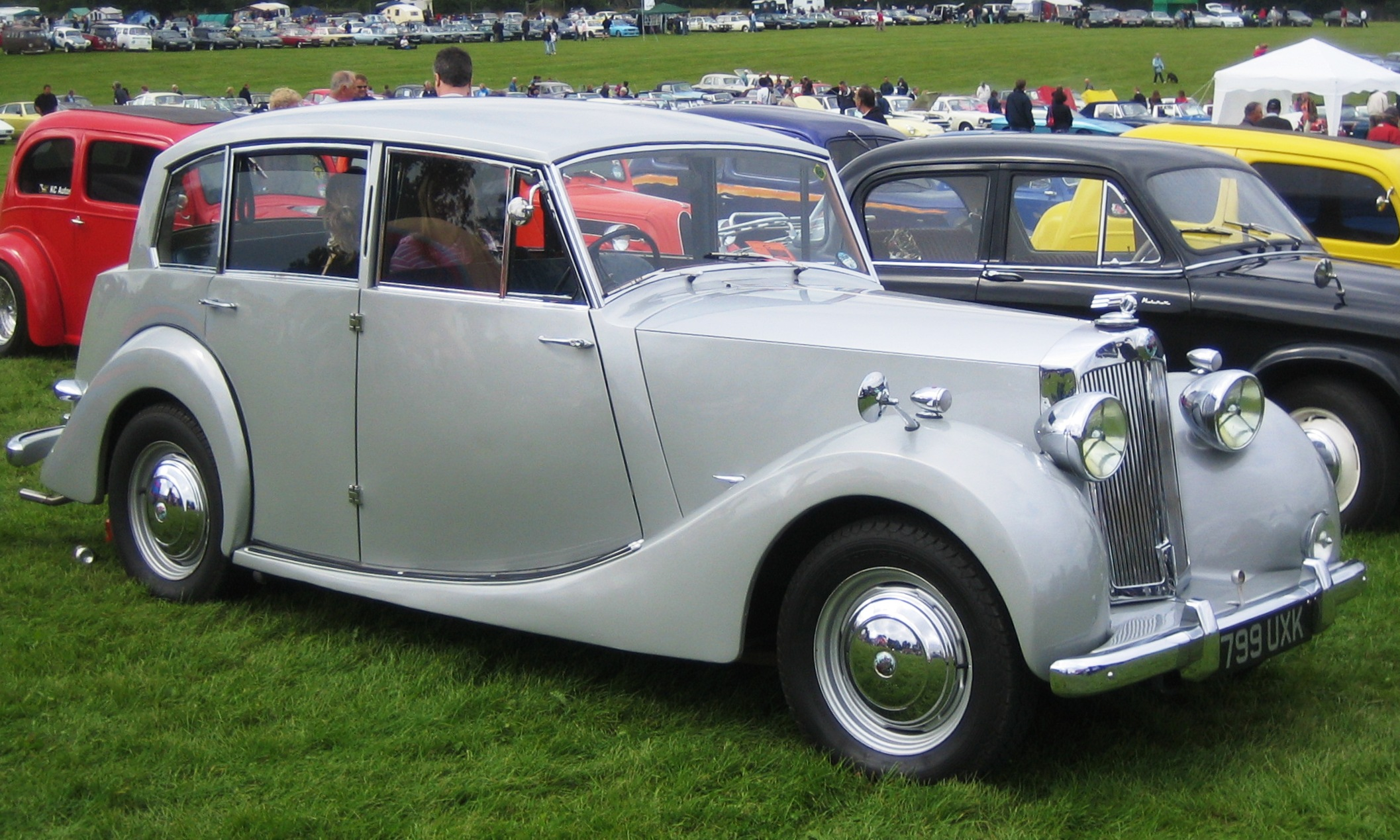 Triumph Renown (2088cc) at Classic Car Show in Hertfordshire